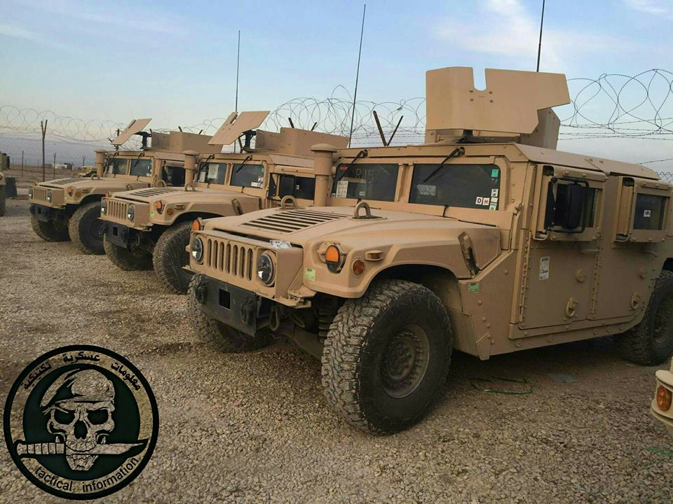 Iraqi Humv